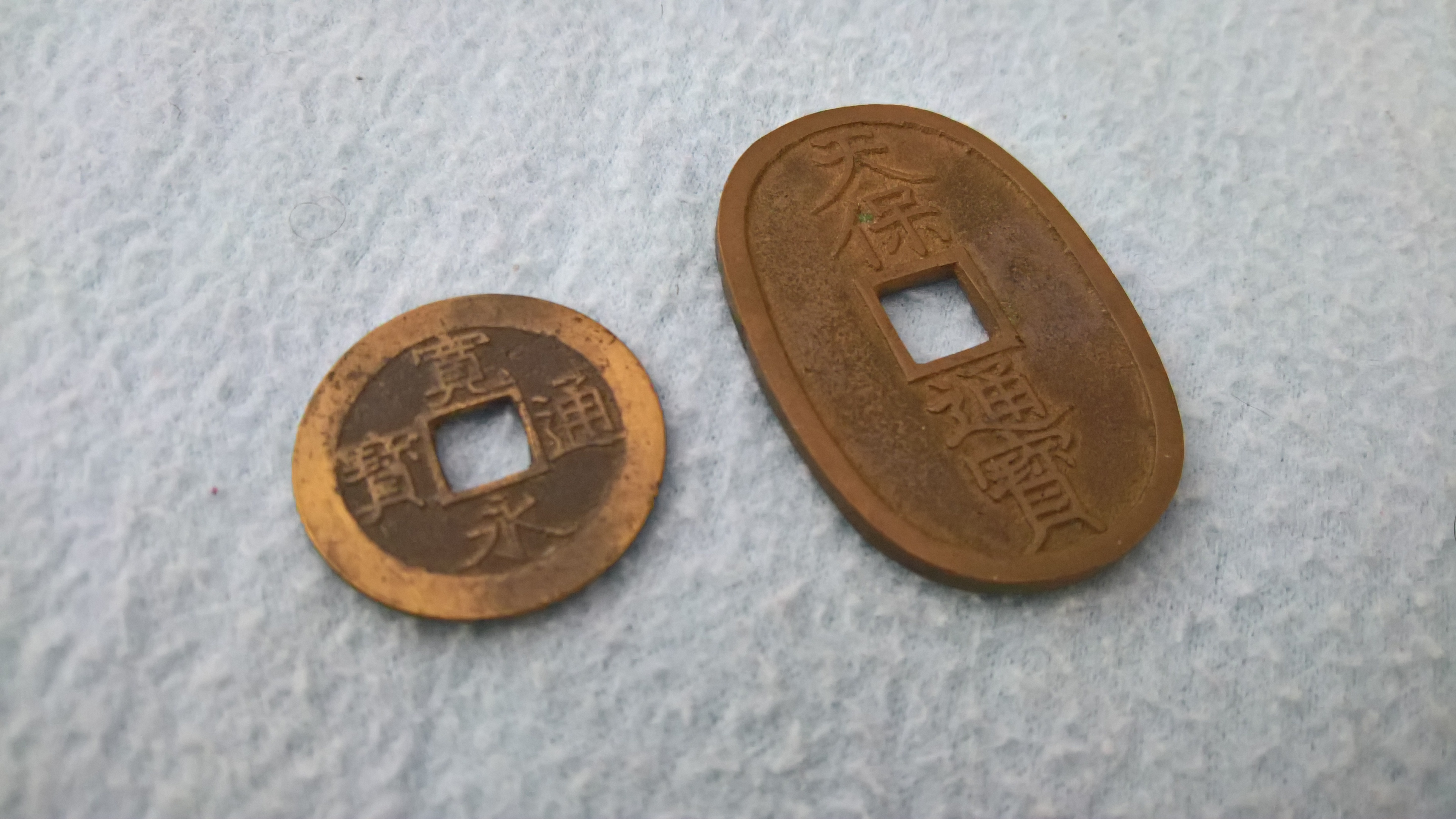 Two (2) Edo period Japanese mon coins, one is a bronze Kan’ei Tsūhō (寛永通寳) of 4 (four) mon, and the other is a Tenpō Tsūhō (天保通寳) ellipse-shaped coin of 100 (one-hundred) mon. Due to the high nominal value of the Tenpō Tsūhō compared to its relatively low intrinsic value the Tenpō Tsūhō tended to circulate for less than its face value. 💴 Uploaded from my Microsoft Lumia 950 XL with Microsoft Windows 10 Mobile 📱.